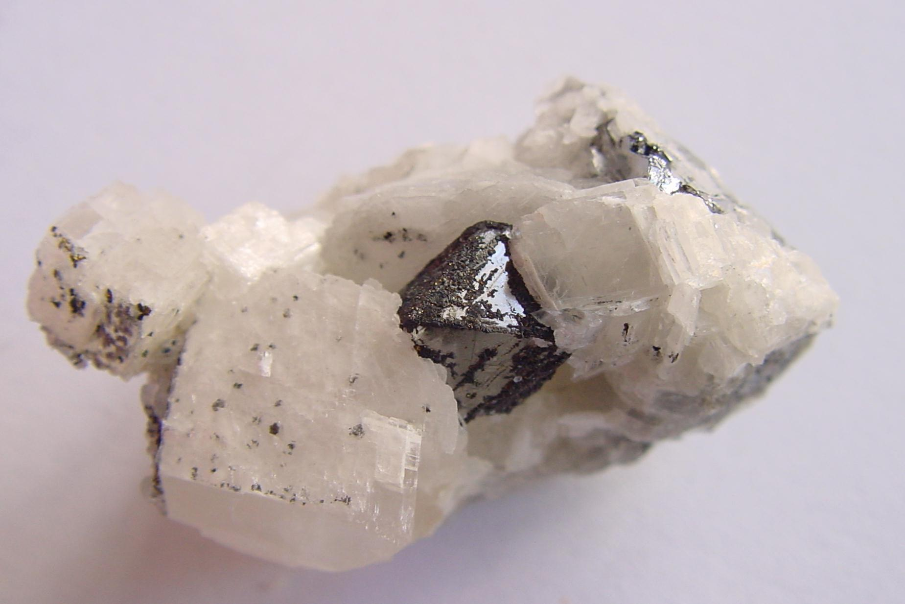 Carrollite from Kambove, Katanga, Democratic Republic of the Congo (former Zaire). The specimen is 4.3 cm wide with a 1.2 cm carrollite crystal partly covered by pyrite between calcite crystals.